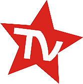 This is the logo of the private TV and Radio station Nyota situated in Lubumbashi, capital city of the Katanga province